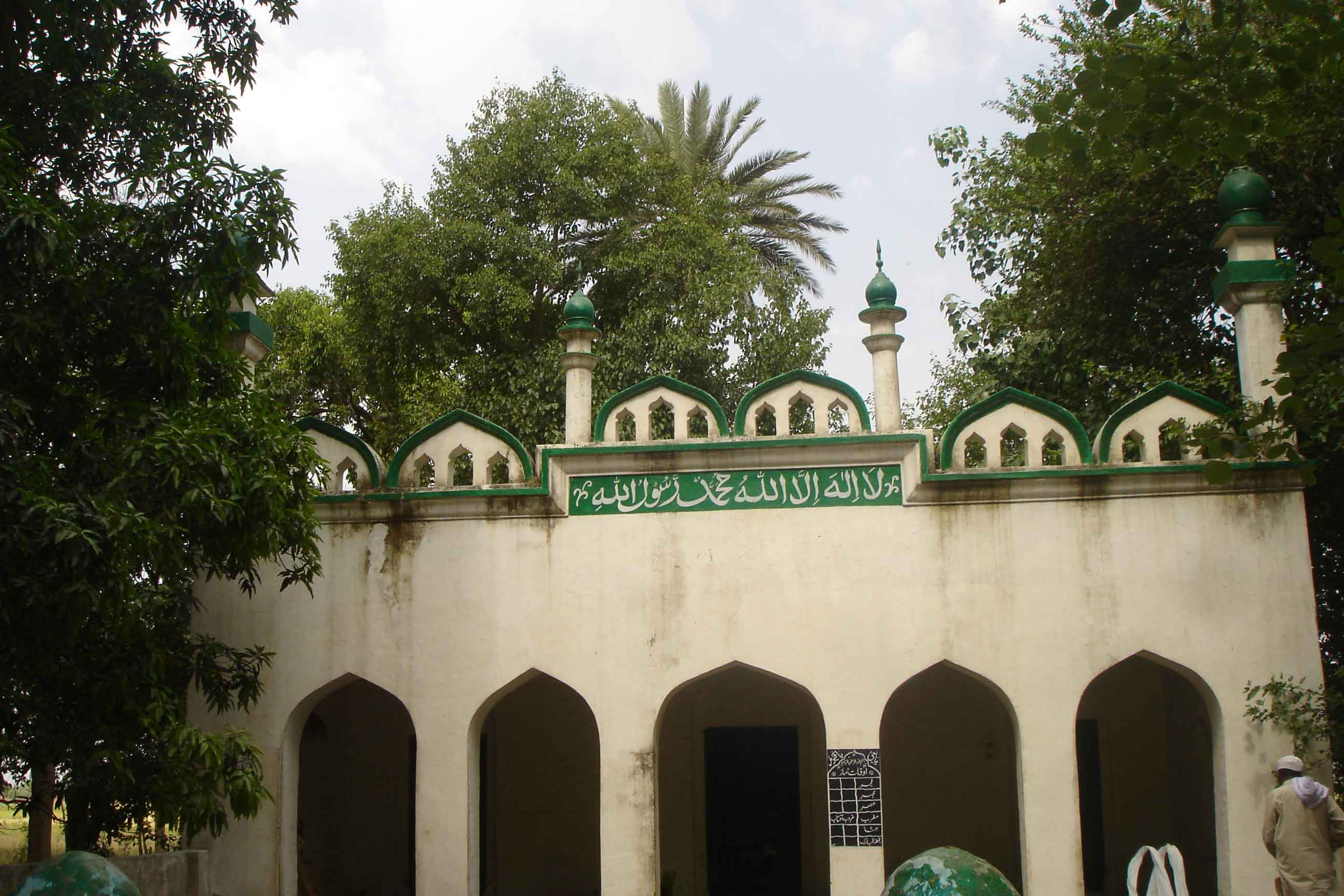 Mosque at Alipure Sayaddan Railway Station